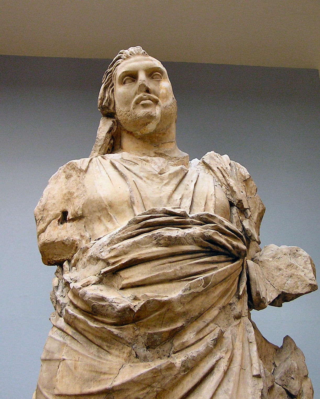 Colossal statue of a man, traditionnally identified with Maussollos, king of Caria. Parian marble, ca. 350 BC. From the north side of the Mausoleum of Halikarnassos (modern Bordum, Turkey).